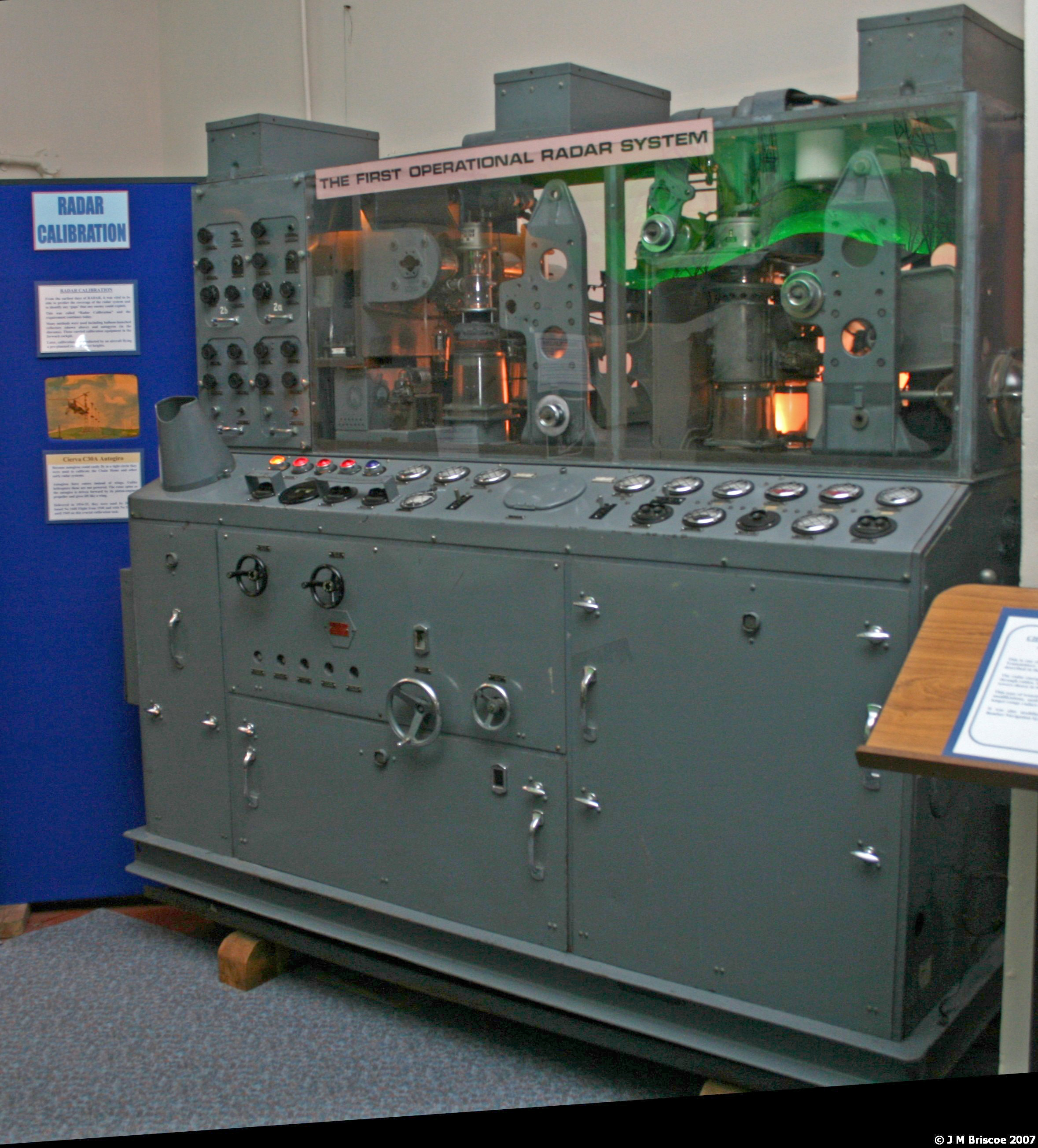 Chain Home Transmitter At RAF Air Defence Museum, photograph by J M Briscoe